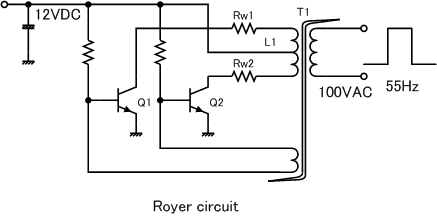 Royer Circuit